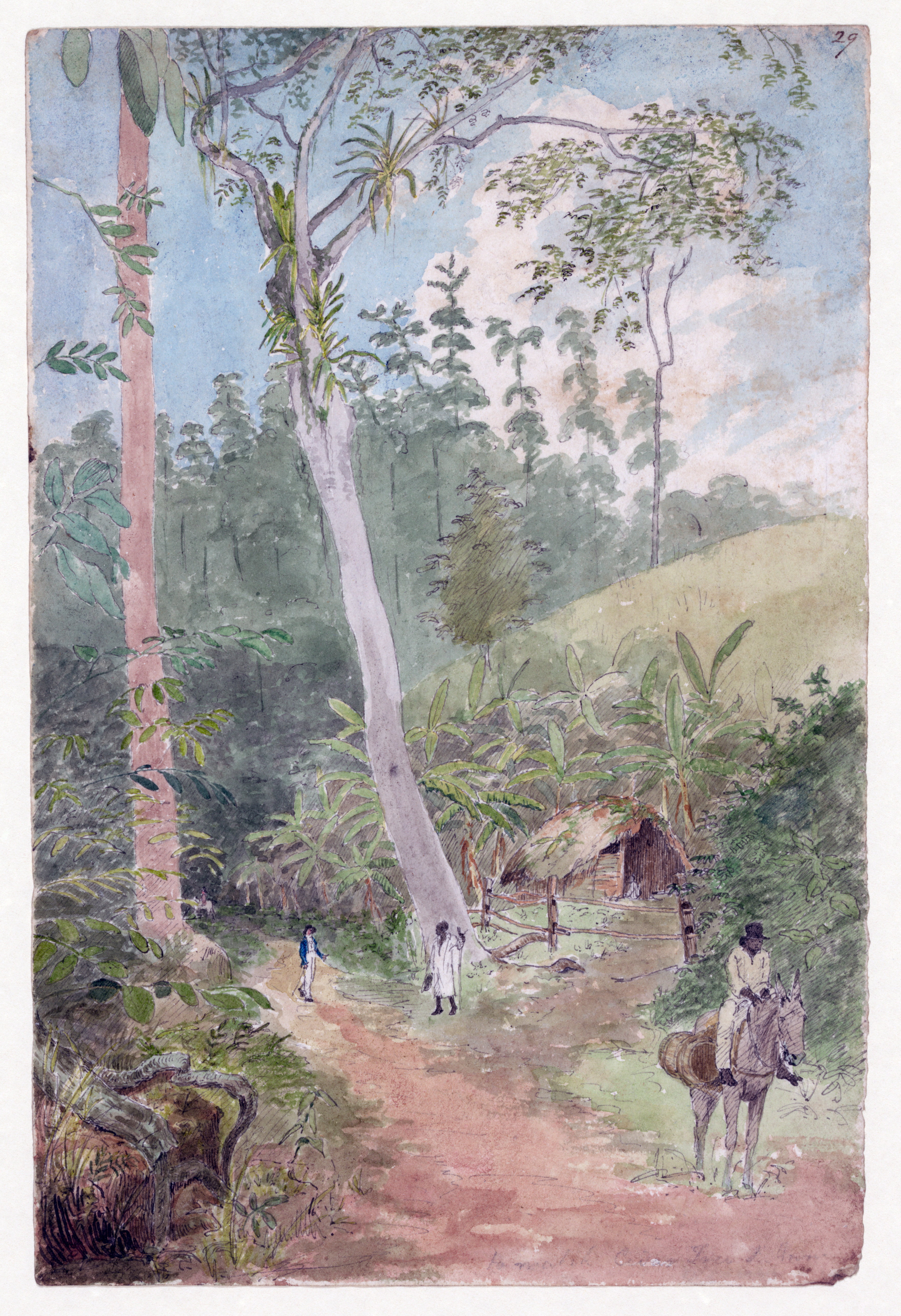 "Plantain Walk - Bookkeeper - Watchman and Hut - man with casks of water / greattoe in stirrup" Early landscape of Jamaica.